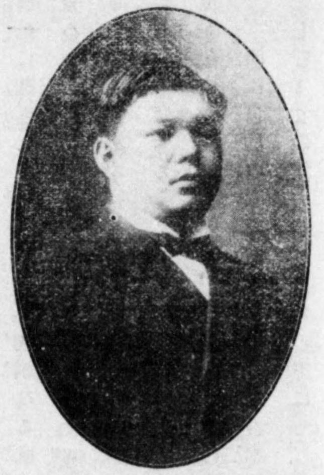 Saiga Tokichi is an Jjapanese industrialist and members of the House of Representatives of Japan